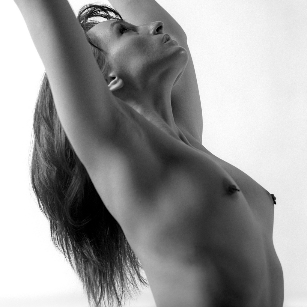 Developed in D-76 stock strength for 5 1/2 minutes, agitating once every 30 seconds.